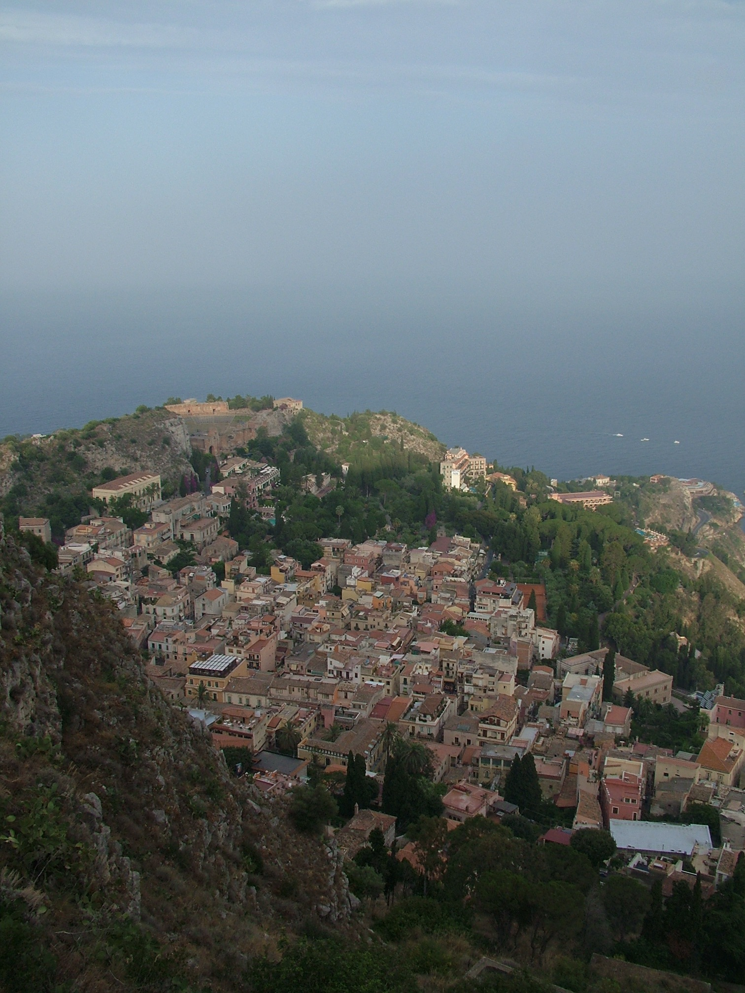 Photograph by Michael David Hill, 2006.